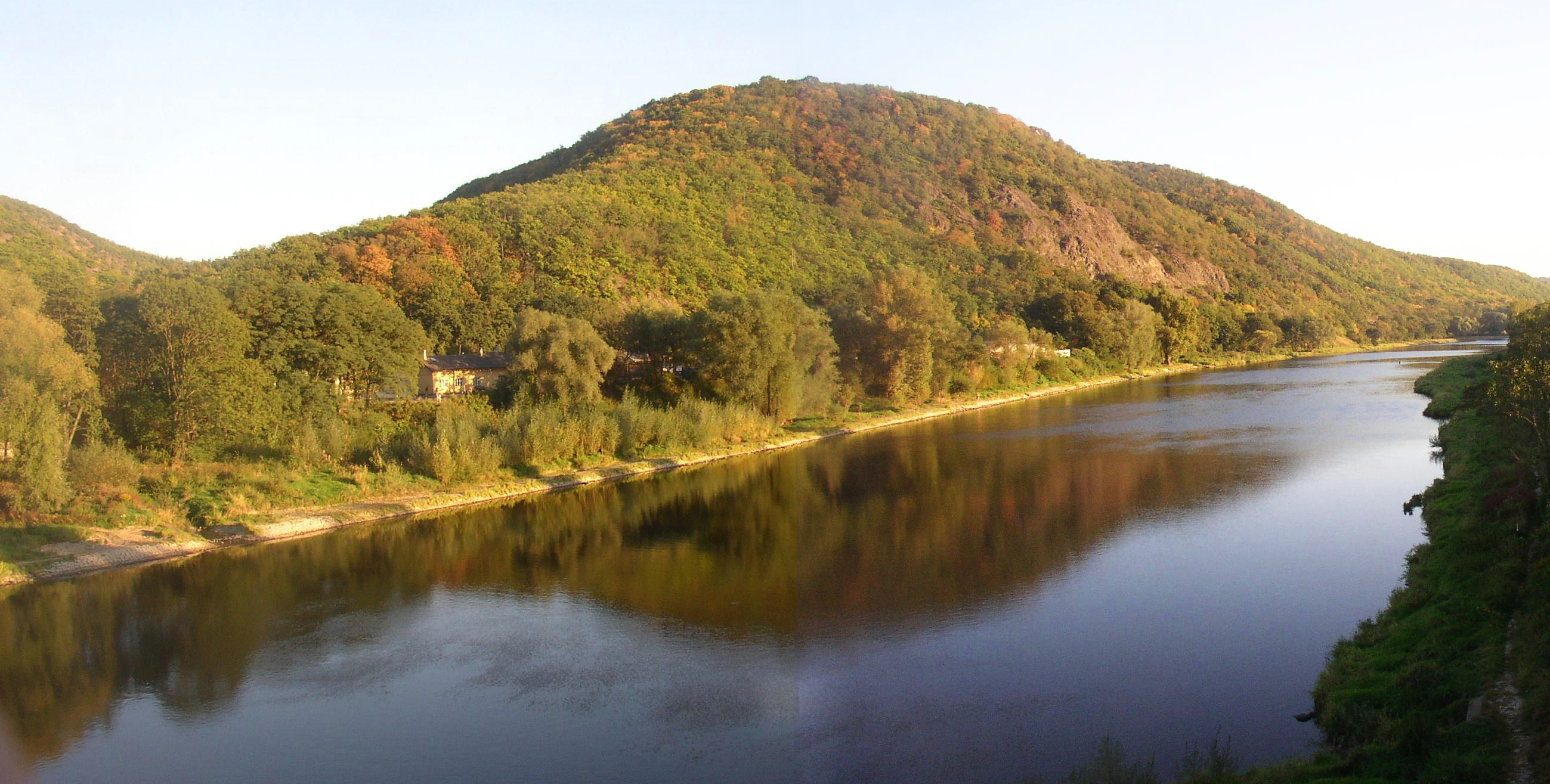 Hradiště nad Závistí (the largest oppidum in Bohemia) near Prague-Zbraslav, Czech Republic. A view across the Vltava River towards southeast.